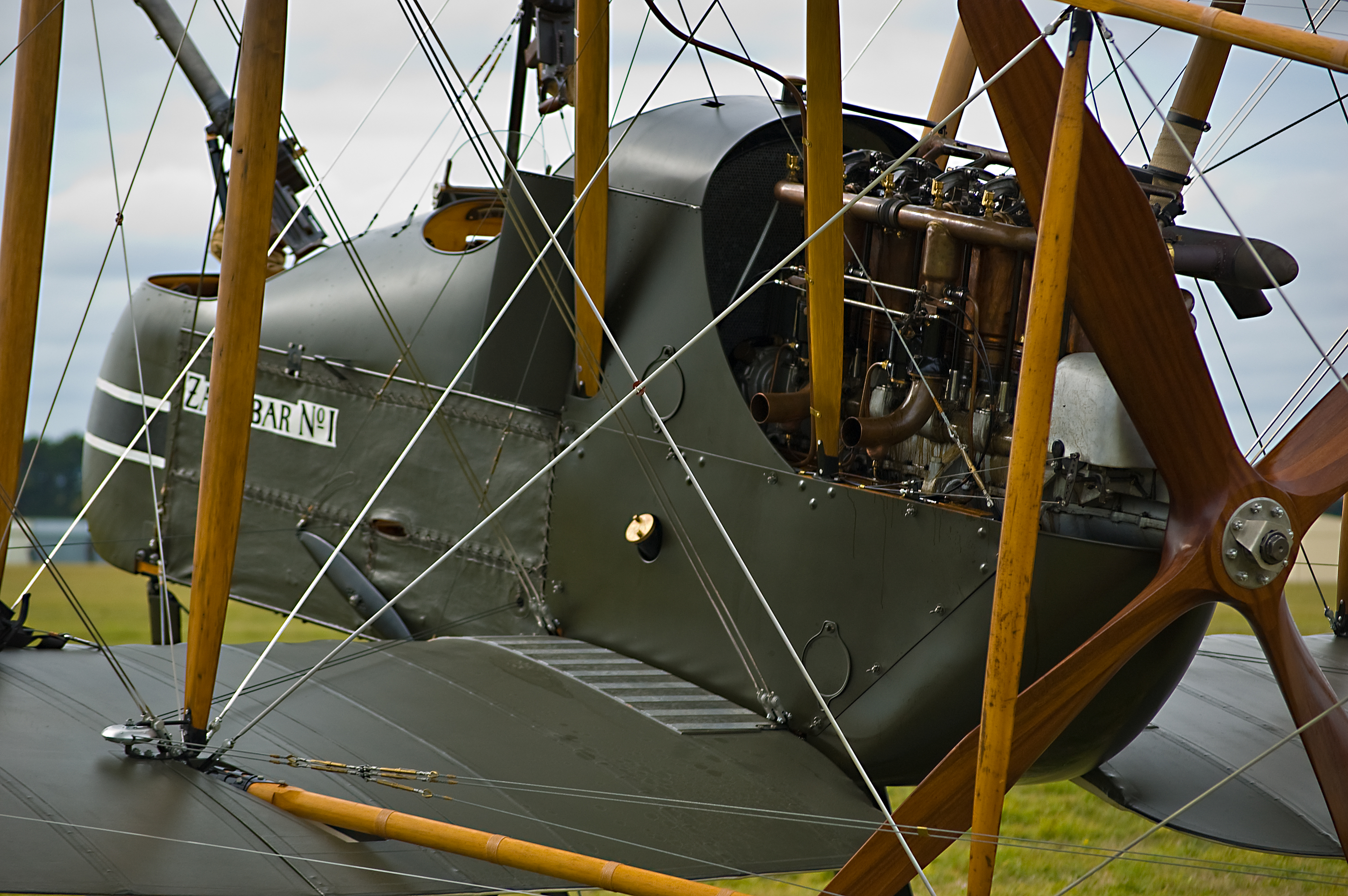 The world's only airworthy example on its first public outing. Built from a mix of original components (notably the engine and prop) and modern replicas using authentic materials and the original plans. Built by The Vintage Aircraft Company (Wellington) and commissioned by Peter Jackson the film director - who lives near Masterton.